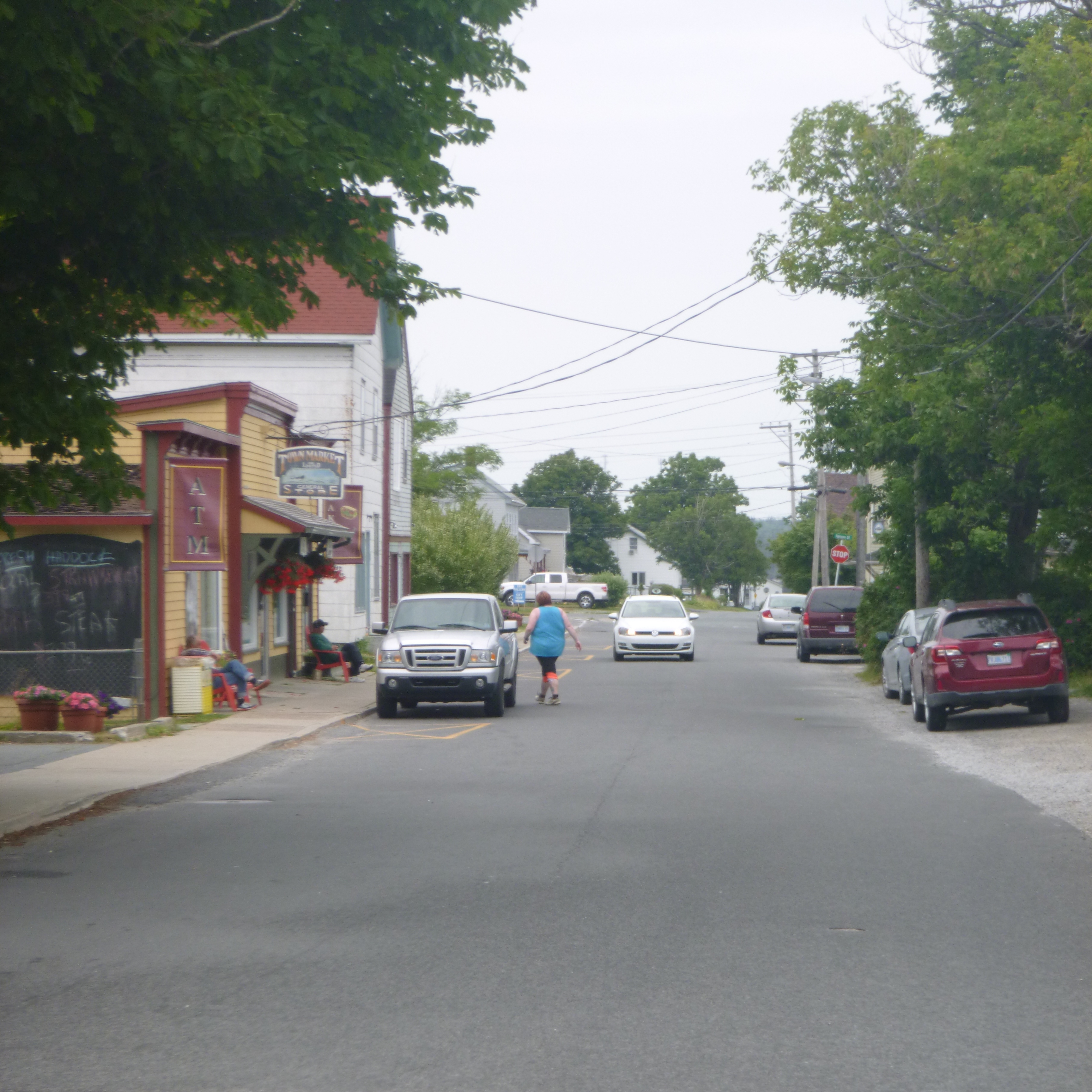 One of the shopping streets in Lockeport, Nova Scotia